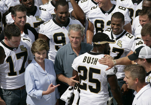 President George W. Bush and Laura Bush are surrounded by members of the New Orleans Saints football team Tuesday, Aug. 29, 2006, as they point out the name of Saints star rookie running back Reggie Bush, when the team met President Bush at the New Orleans Airport to pose for a team photo.